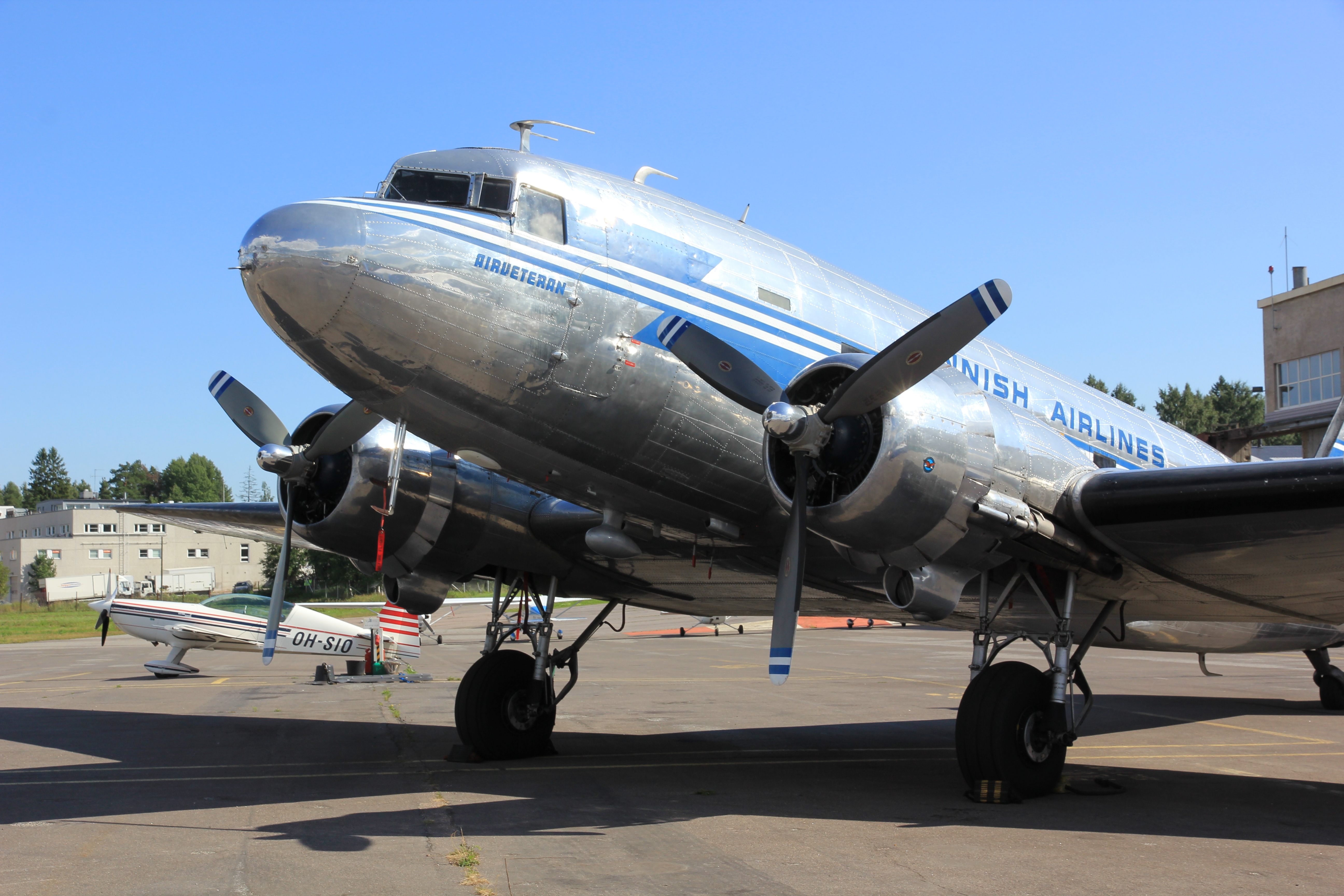 Douglas DC-3 in old Aero O/Y livery at Helsinki-Malmi Airport.